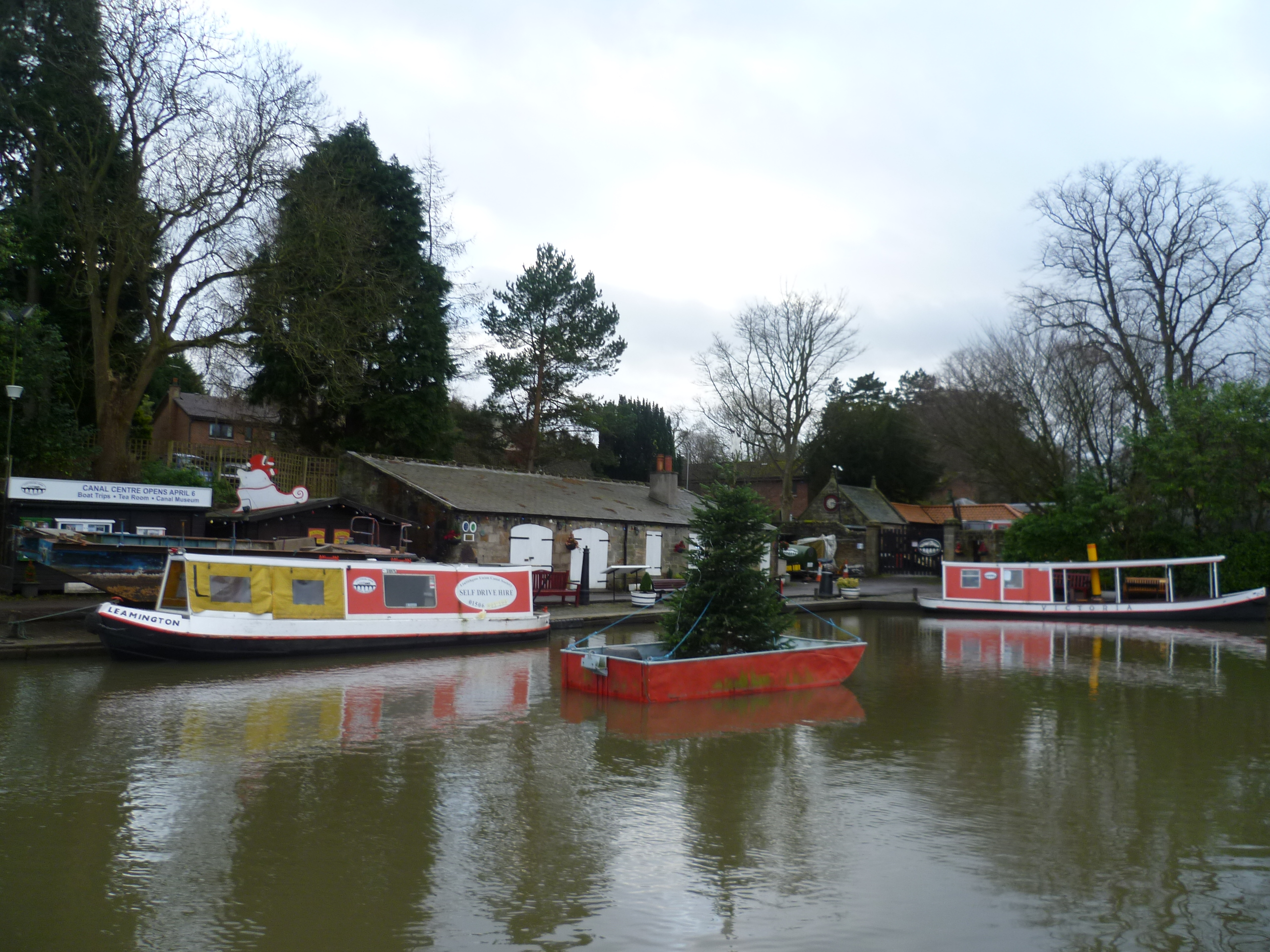 Union Canal Basin at Linlithgow